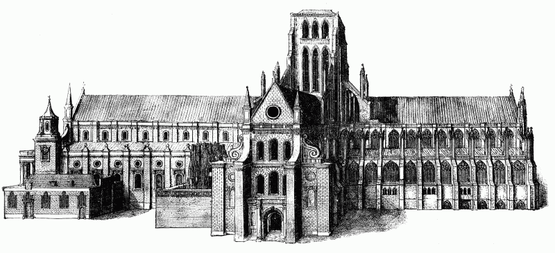 Old St. Paul's Cathedral from the south